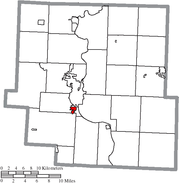 Map of the municipal and township boundaries of Muskingum County, Ohio, United States, as of the 2000 census, with the location of the village of South Zanesville highlighted. Township borders are shown only in unincorporated areas in order to differentiate incorporated and unincorporated areas more clearly.